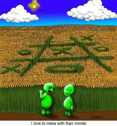 Cartoon of aliens standing in front of crop circles